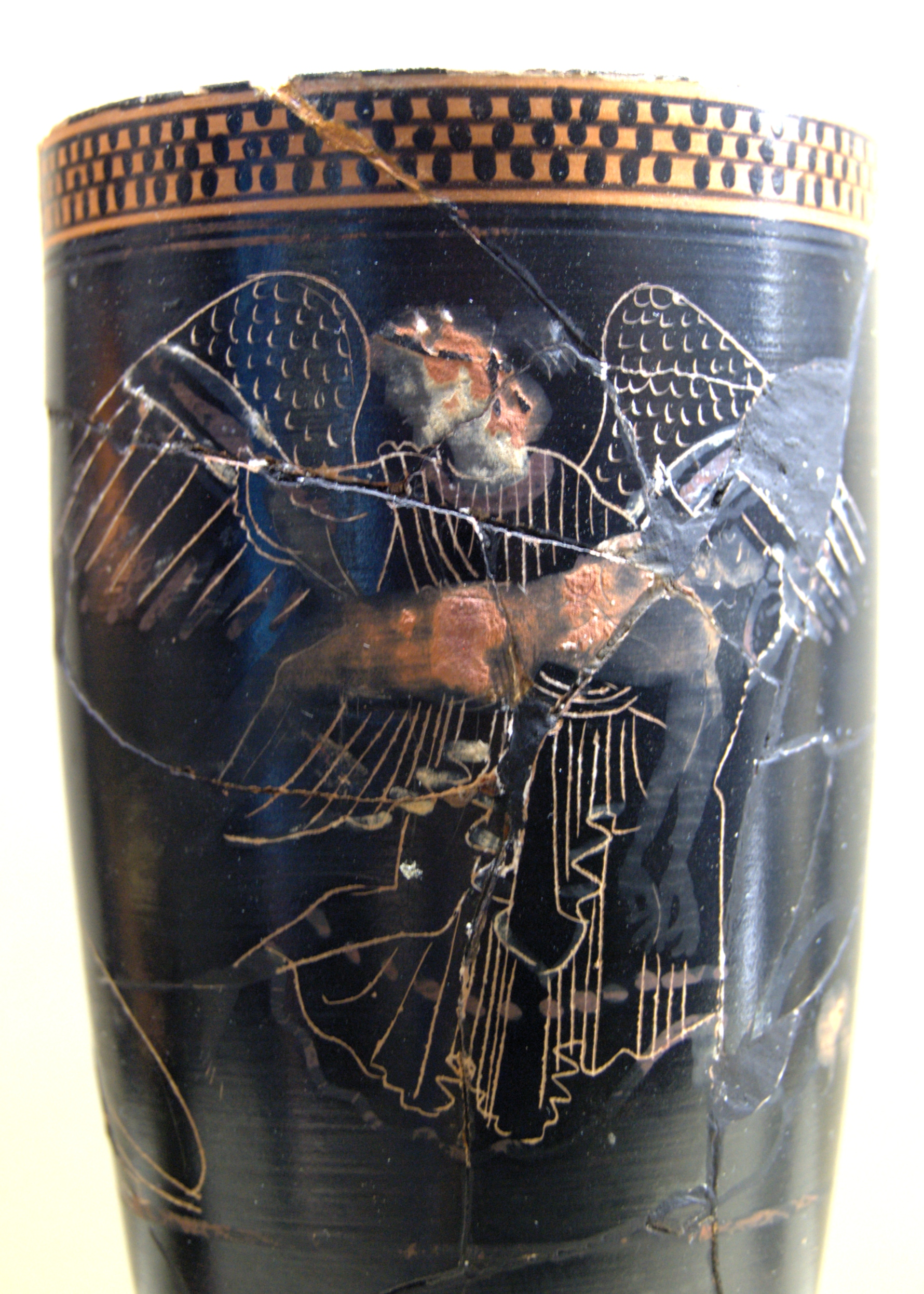 Eos and Memnon. Attic lekythos with decoration in superposed colours.